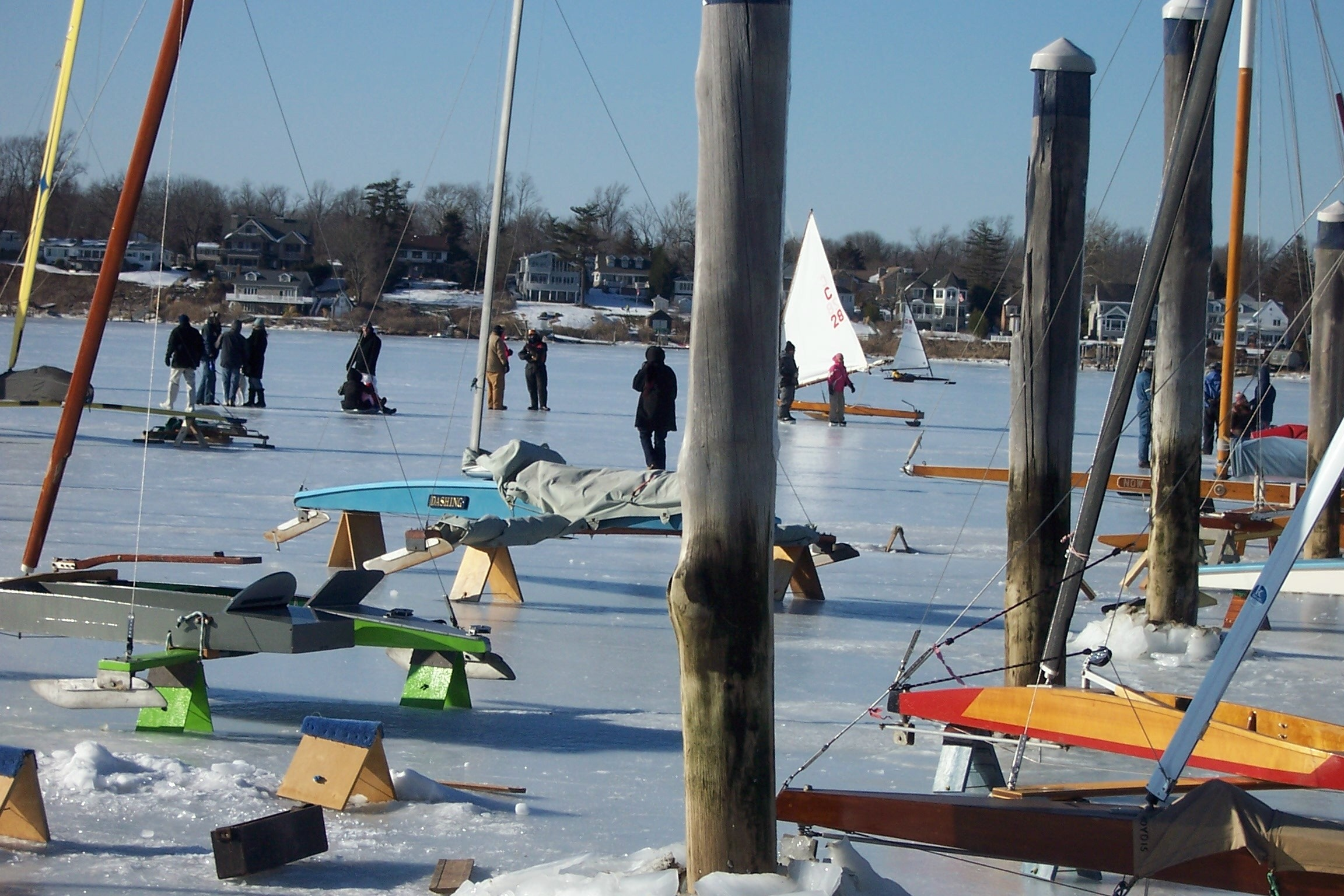 Ice boat sailing in Red Bank, New Jersey.